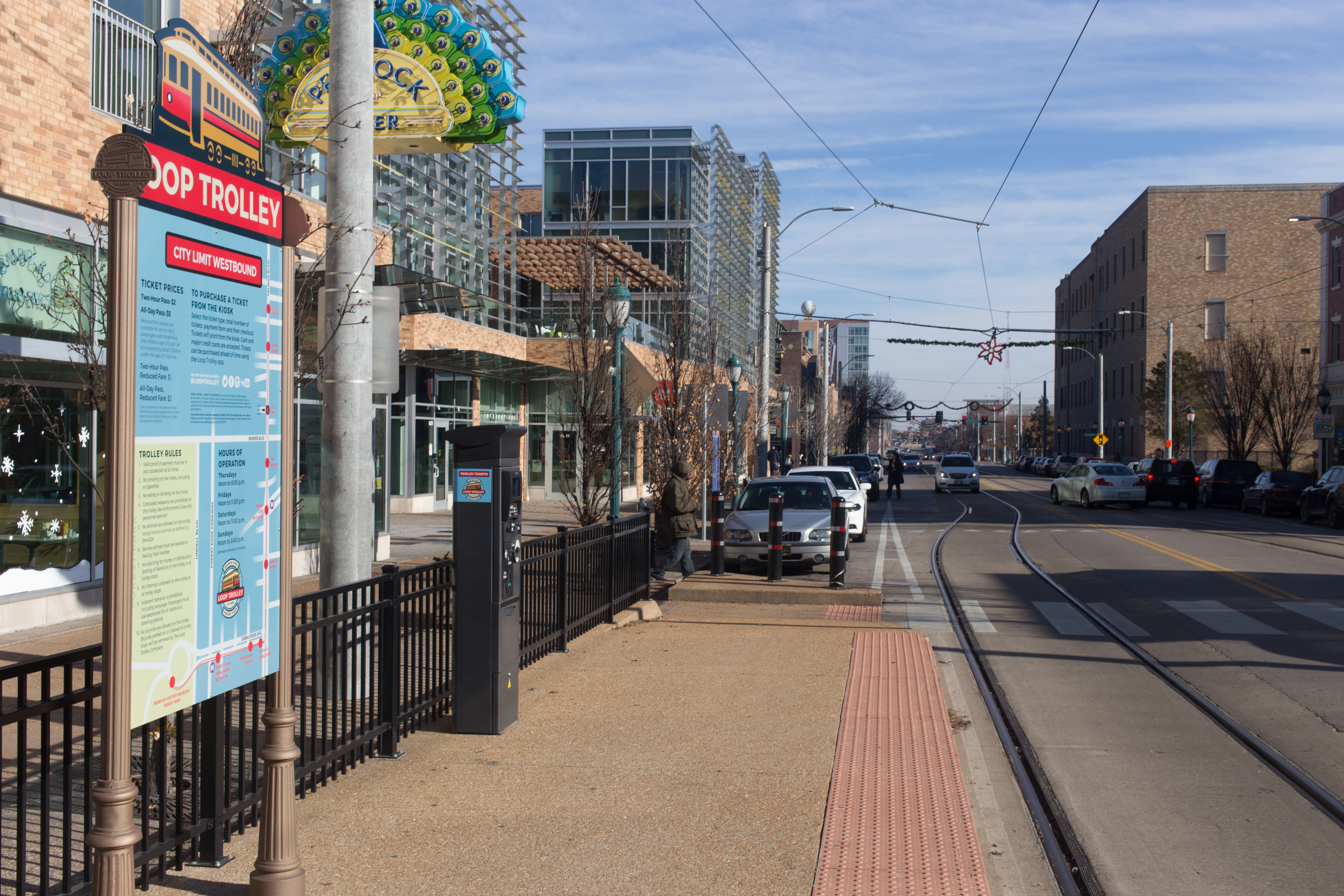 Loop Trolley stop on Delmar Blvd. at Limit Avenue. This is the westbound "City Limit" stop, in University City, Missouri, in the St. Louis metropolitan area.